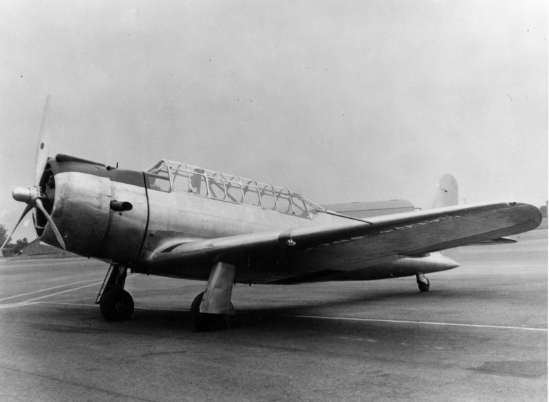 PictionID:45406724 - Catalog:16_006814 - Title:Vultee V-12D - Filename:16_006814.TIF - Image from the Ray Wagner Collection. Ray Wagner was Archivist at the San Diego Air and Space Museum for several years and is an author of several books on aviation --- ---Please Tag these images so that the information can be permanently stored with the digital file.---Repository: San Diego Air and Space Museum